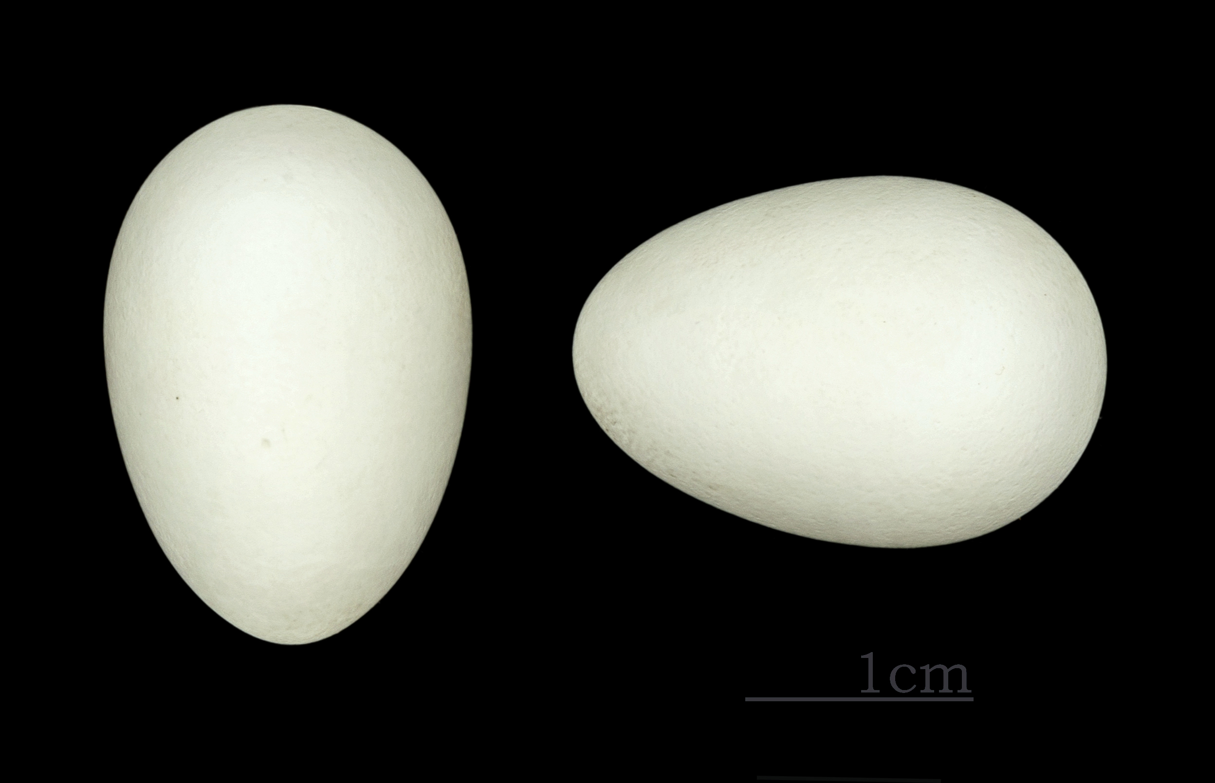 Egg of Common Swift. Collection of Jacques Perrin de Brichambaut.